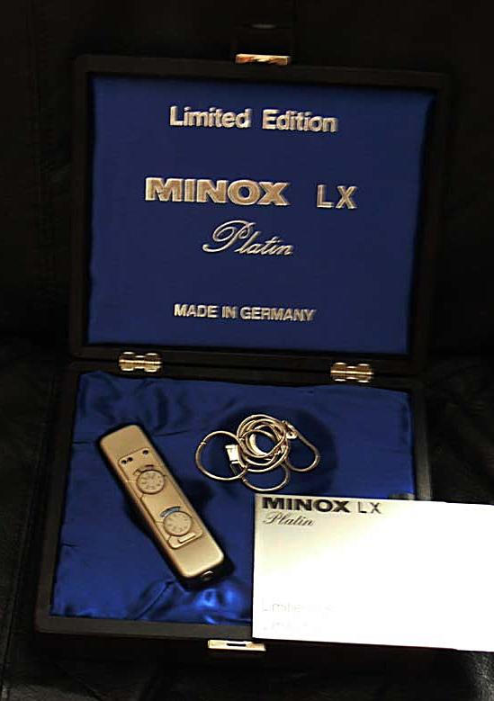 Limited Edition MINOX PLATIN